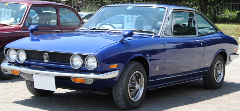 Isuzu 117 Coupe XE.